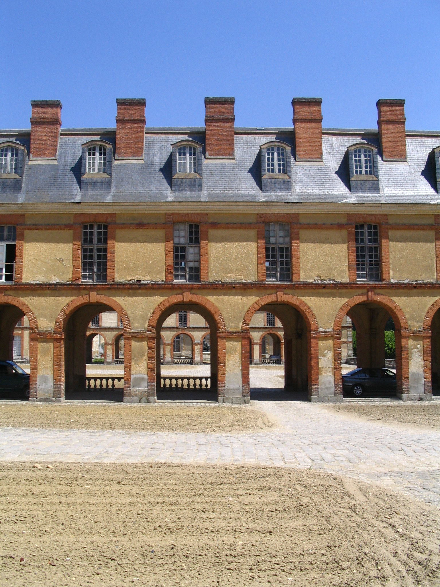 The Château de Dampierre, Dampierre-en-Yvelines, France, side wing